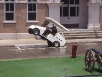 Scène from the Police Academy Stunt Show